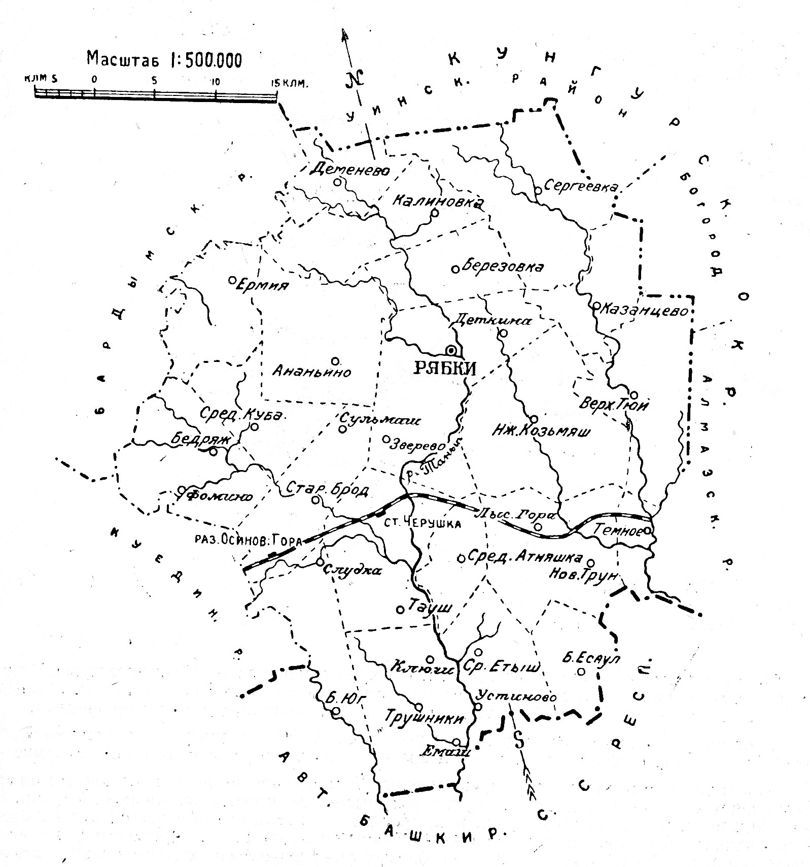 Map of Chernushkinskiy rayon (Sarapulskiy okrug of Uralic Region of RSFSR) in 1928.